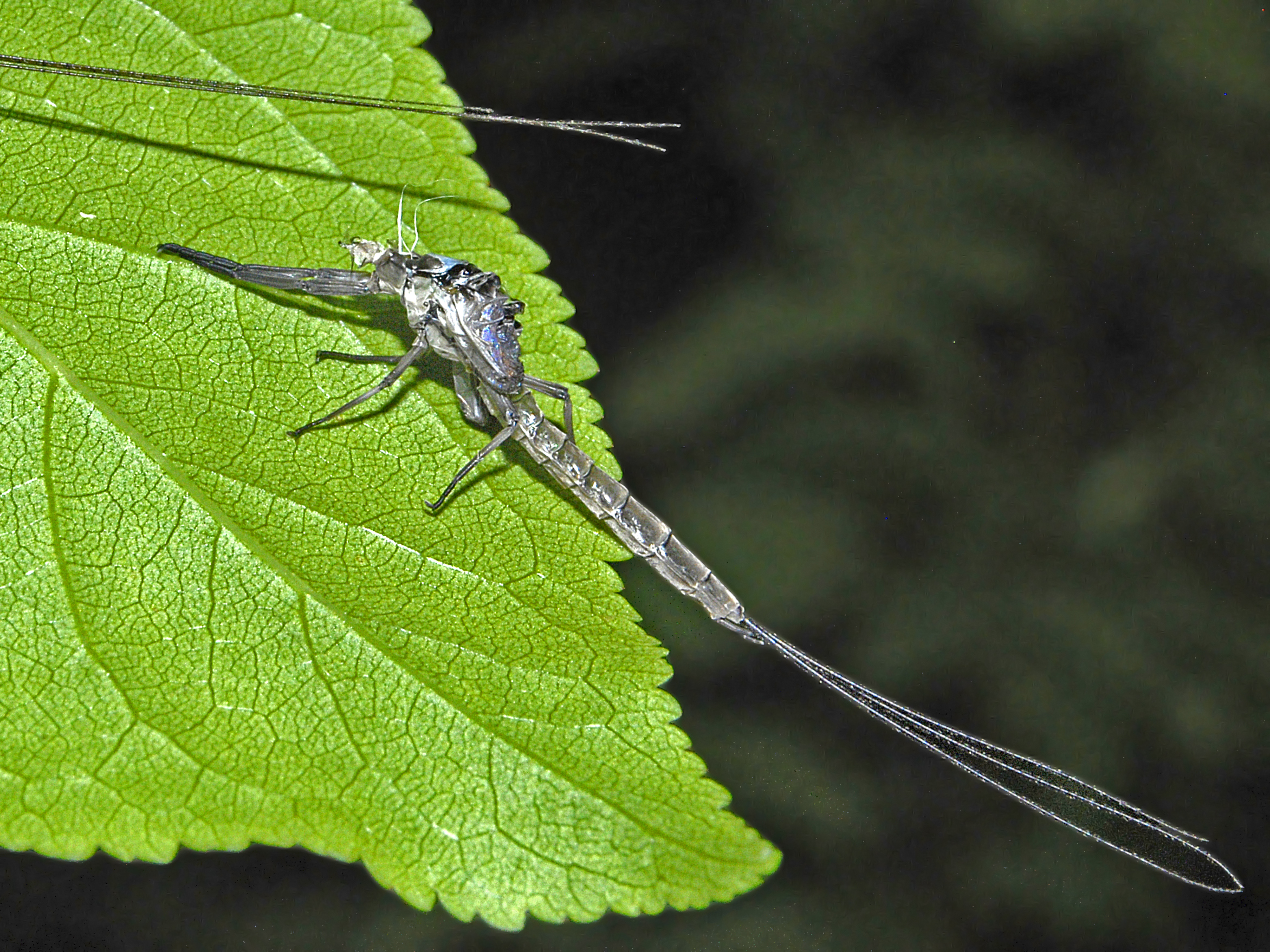 Exuvia of Ephemera danica. Genoa, Italy